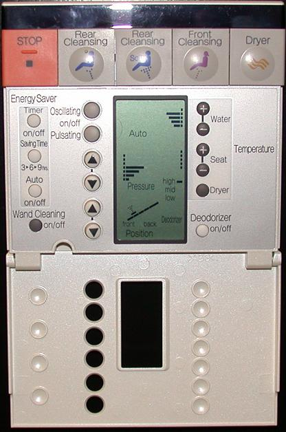 Google toilet control: Control Panel for the "super" toilet at Google's Corp HQ.